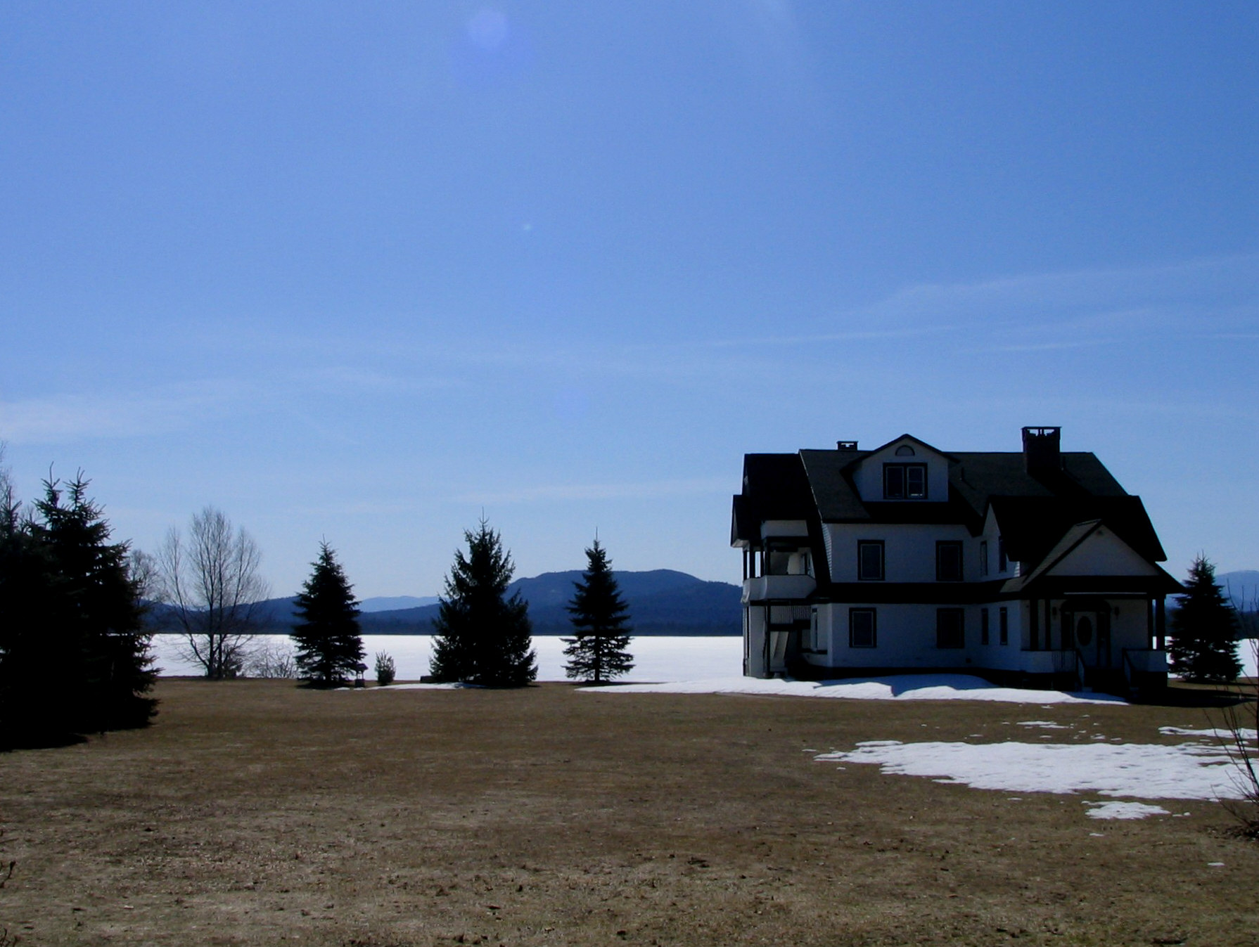 Saranac Inn. One of the original Inn Cottages, that was moved to the former location of the Inn